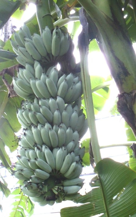 The color of the fruit is an unusual blue green and the leaves are silver-green.